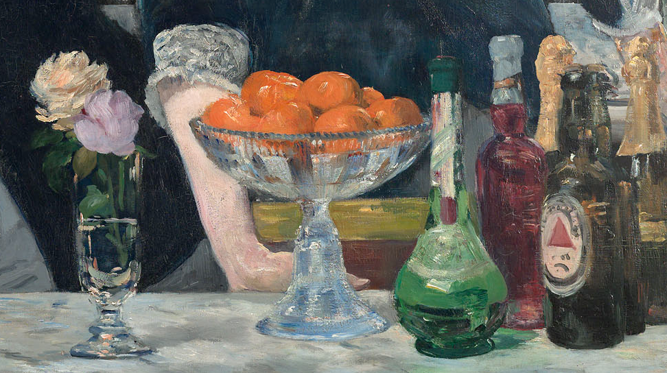 A Bar at the Folies-Bergère, detail I